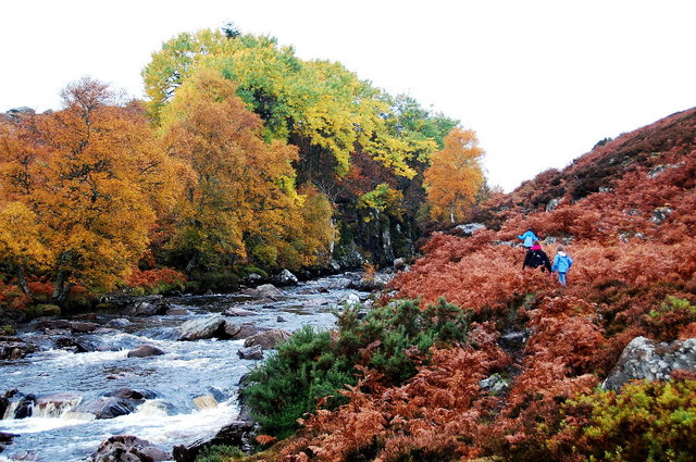 Anonymous beauty along the River Brora Despite the rain everyone was enchanted by the scenery. Colourful deciduous woodland, with a gorge and rapids. Not named on the map.